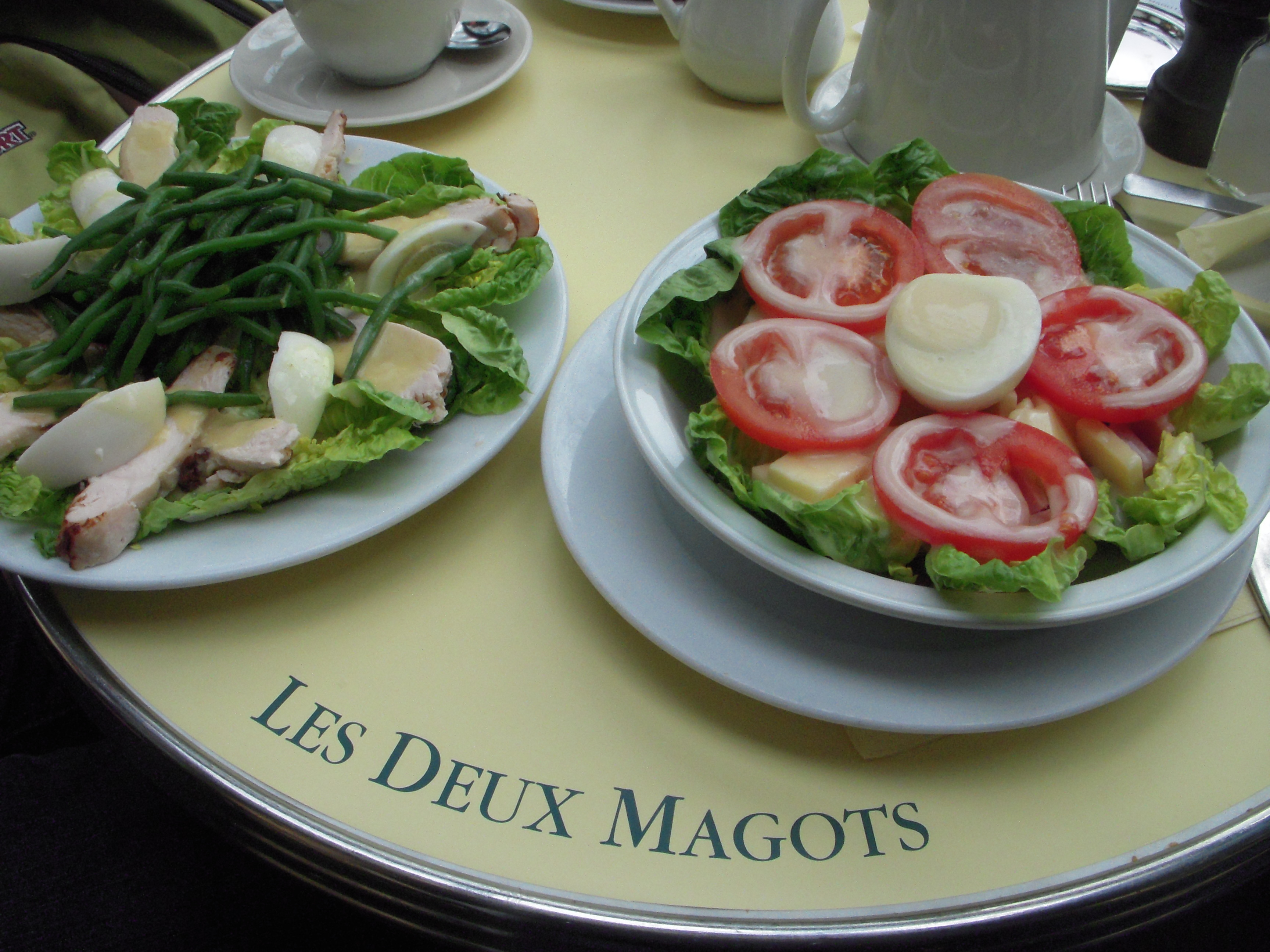 Lunch on 'Les Deux Magots' on Blvd. Saint-Germain in Paris. April 8, 2010